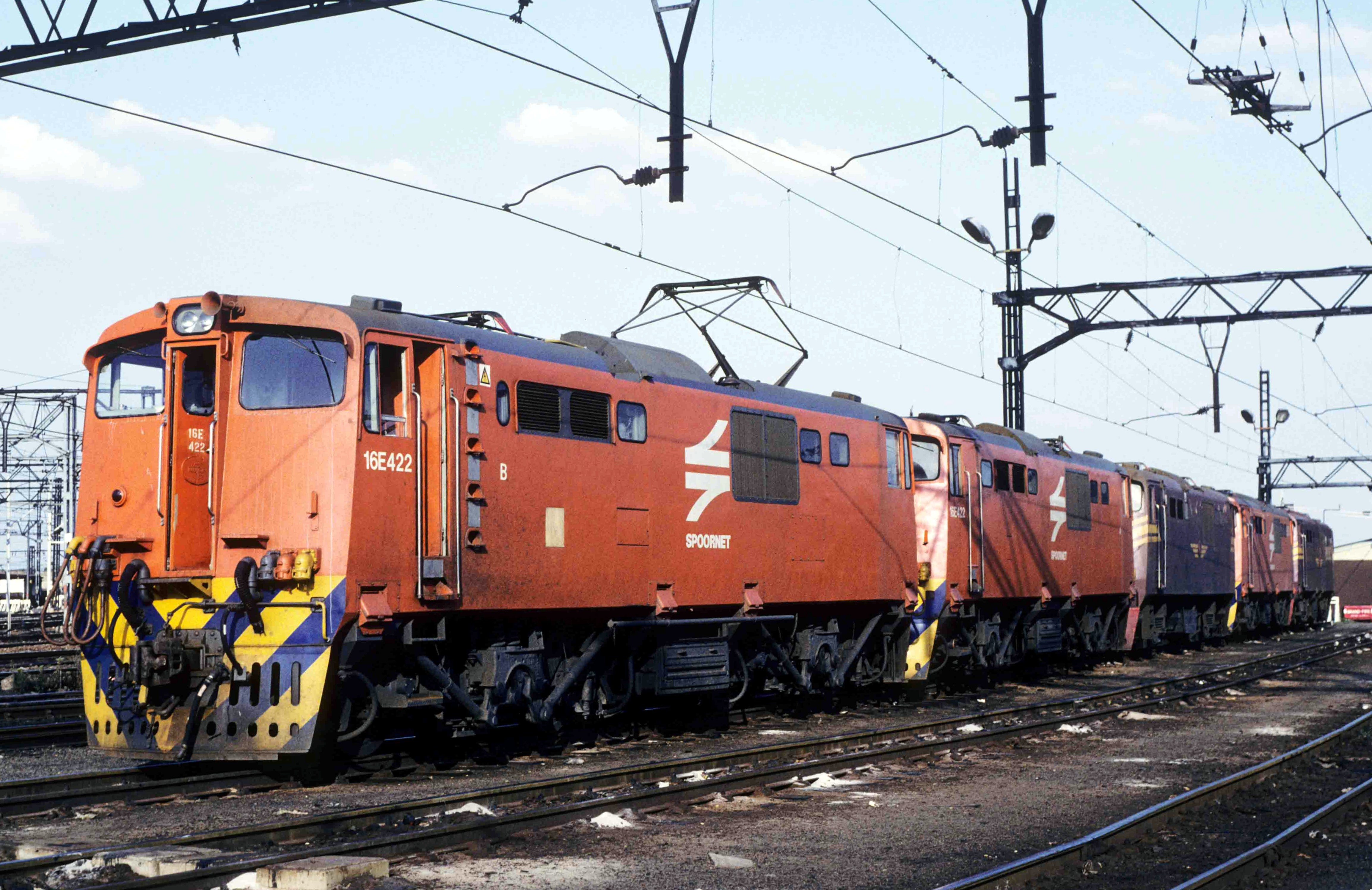 Class 6E1 Series 6 no. E1709 as Class 16E no. 16-422B, semi-permanently coupled to no. E1669 as Class 16E no. 16-422ALocation: GermistonRebuilding: Rebuilt to Class 18E no. 18-503 in 2009